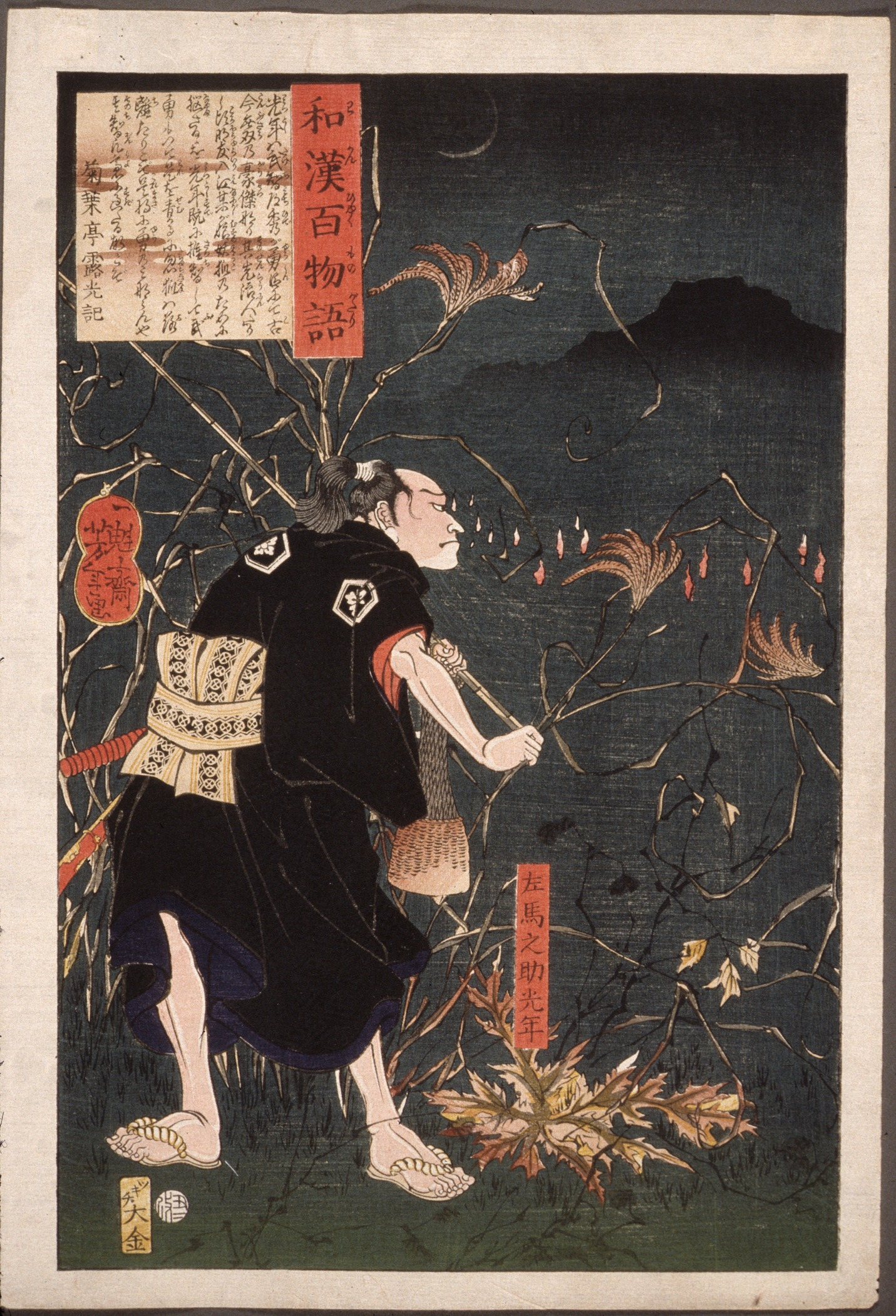 Japan, 1865, 2nd month Series: One Hundred Ghost Tales from China and Japan Prints; woodcuts Color woodblock print Herbert R. Cole Collection (M.84.31.61) Japanese Art 左馬之助（明智秀満のこと）の友人・入江長兵衛の子供に狐が憑いたと聞き、狐を退治した。